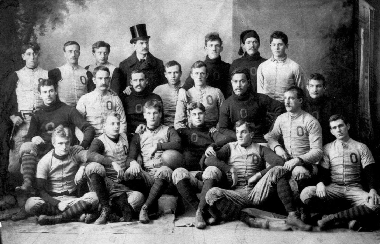 The undefeated 1892 Oberlin College football squad. Caption: "The undefeated Oberlin eleven--the 1892 varsity coached by John Heisman, who also played in several of its contests. Back row (from left): Louis Hart, Louis (Lou) B. Fauver, Will Merriam, Bert Hogen, John H. White, George Berry, Orin W. Ensworth. Second row: John Heisman, Lynds Jones, Josiah (Joe) C. Teeters, Miles E. Marsh, Clayton (Clate) K. Fauver, John Wise, Thomas W.Johnson. Bottom row: Washington Irving Squire, Fred Savage, Carl Williams, Ellsworth B. Westcott, Max F. Millikan, Harry Zimmerman, Andrew B. Kell. The woolen cap that Berry is wearing was the only kind of "helmet" that was acceptable." Photo from Oberlin College Archives.